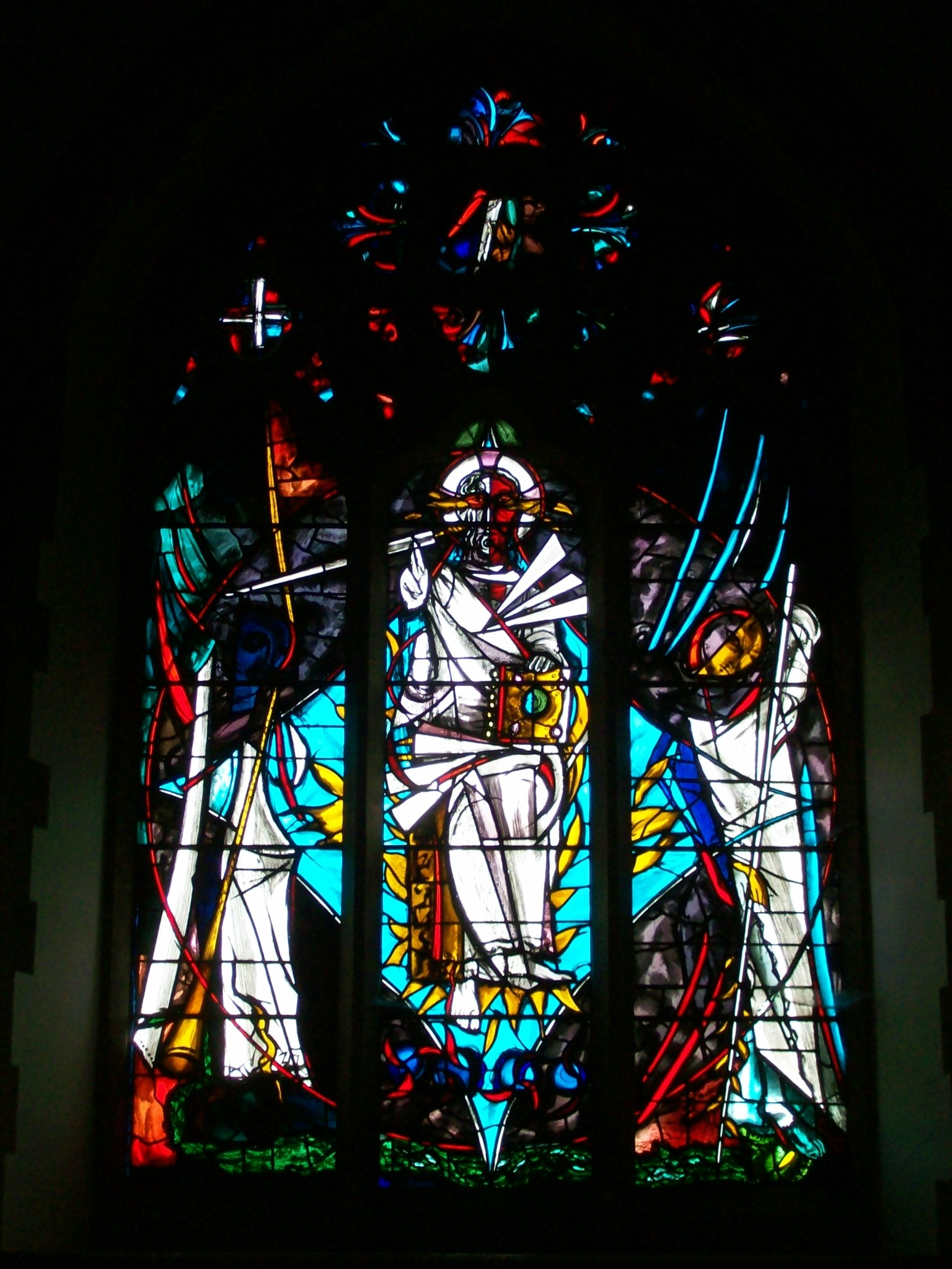 Chancel east window representing Christ in Majesty in the parish church of St Michael and All Angels, Marden, Kent. Designed and made by Patrick Reyntiens in 1962.